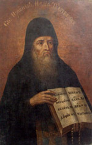 St. Isaiah of Kiev-Pechersk